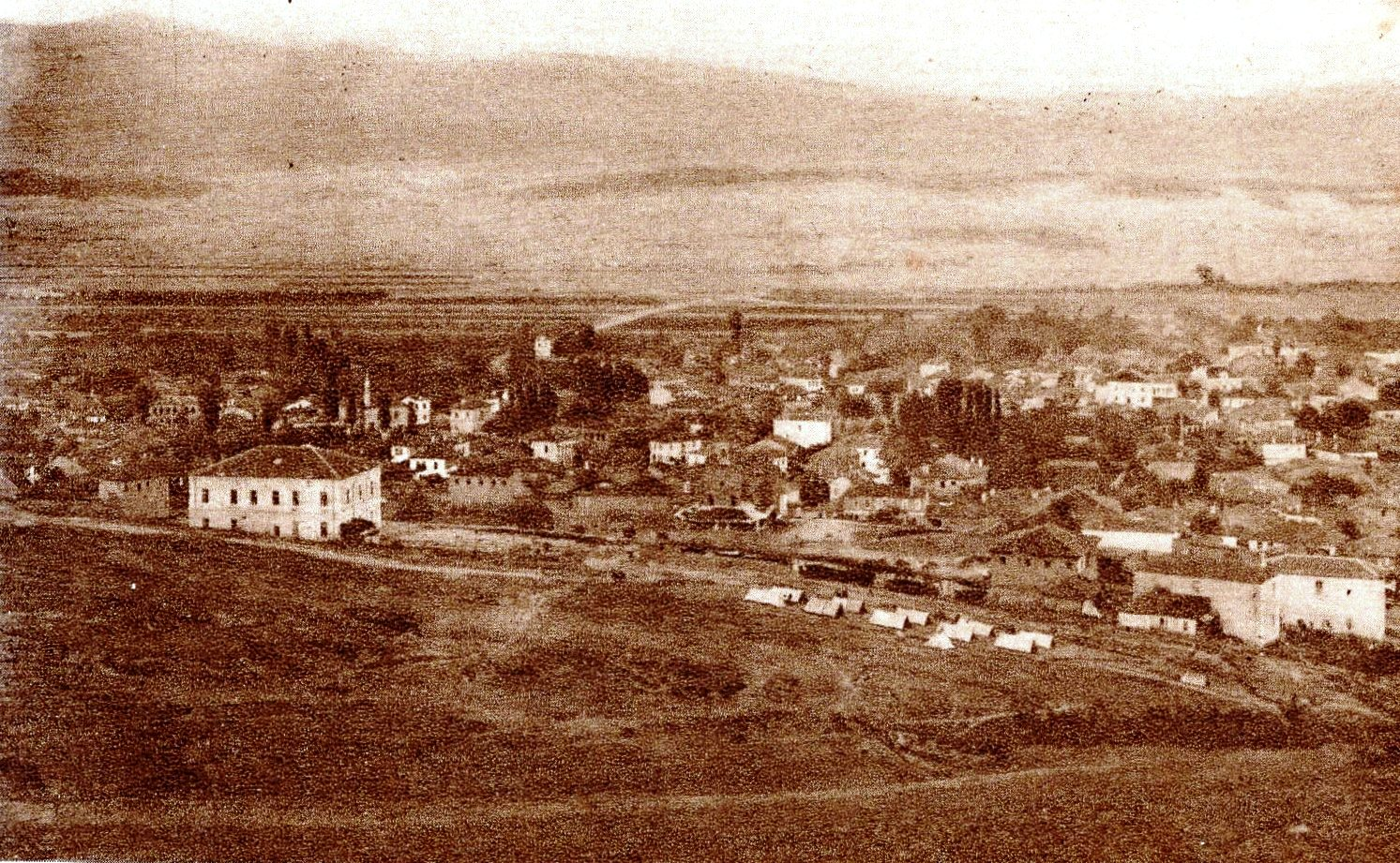 Resen, Macedonia, photo from 1928 This media file is produced by Wikipedian in Residence in Category:Wikipedian in Residence at DARM in 2016.